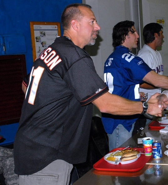 Retired athletes, Bryan Hickerson of the San Francisco Giants; Keith Elias of the New York Giants; and Anthony Telford of the Texas Rangers; meet with Soldiers from 2nd Brigade Combat Team, 4th Infantry Division during their visit to Camp Echo Nov. 7, 2008.